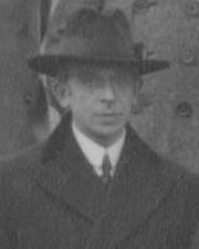 Richard von Mises, Mathematical Society Jena, visitors' conference at Abbeanum in Jena, 26th until 28th October 1930.